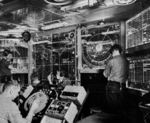 USS Triton (SSRN-586) - Combat Information Center (CIC). Original caption from Source: Triton's Air Control Center. After the radar picket role was dropped this large space was readily adapted to many other uses including, the author's surmise, electronic intelligence gathering. (Naval Historical Center).